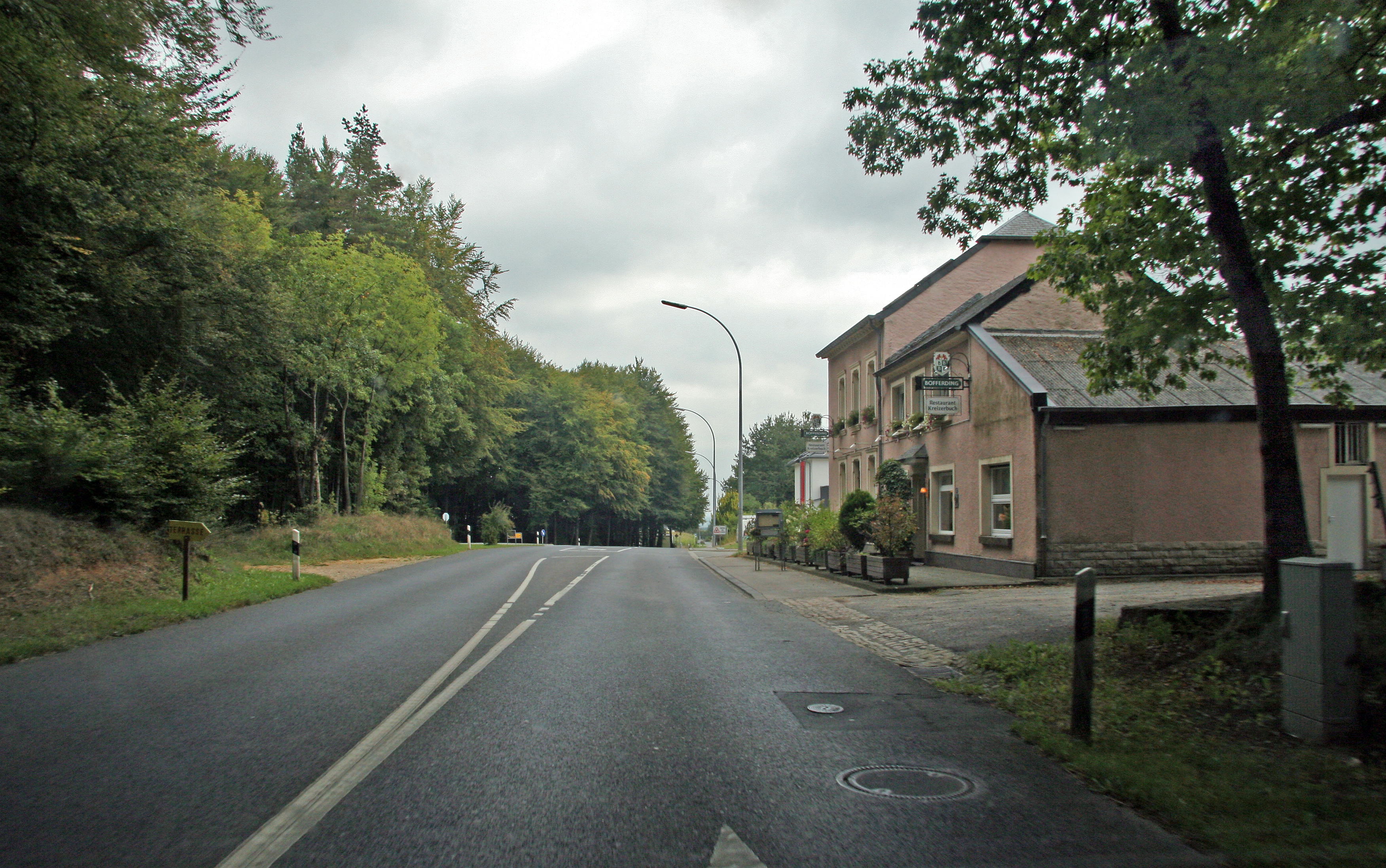 Kreuzerbuch, small locality in the municipality of Habscht, Luxembourg